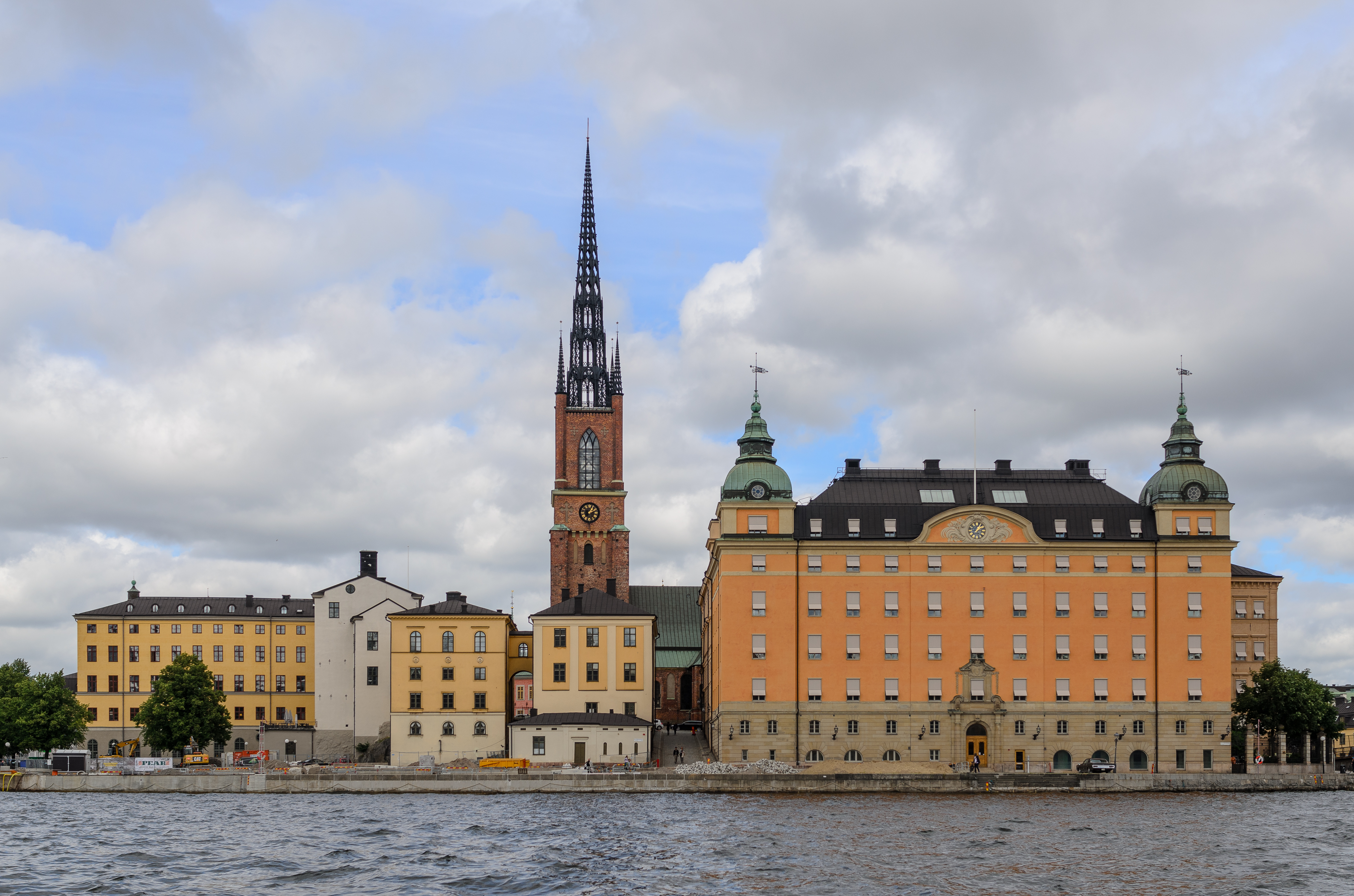 Riddarholmen, view from south.